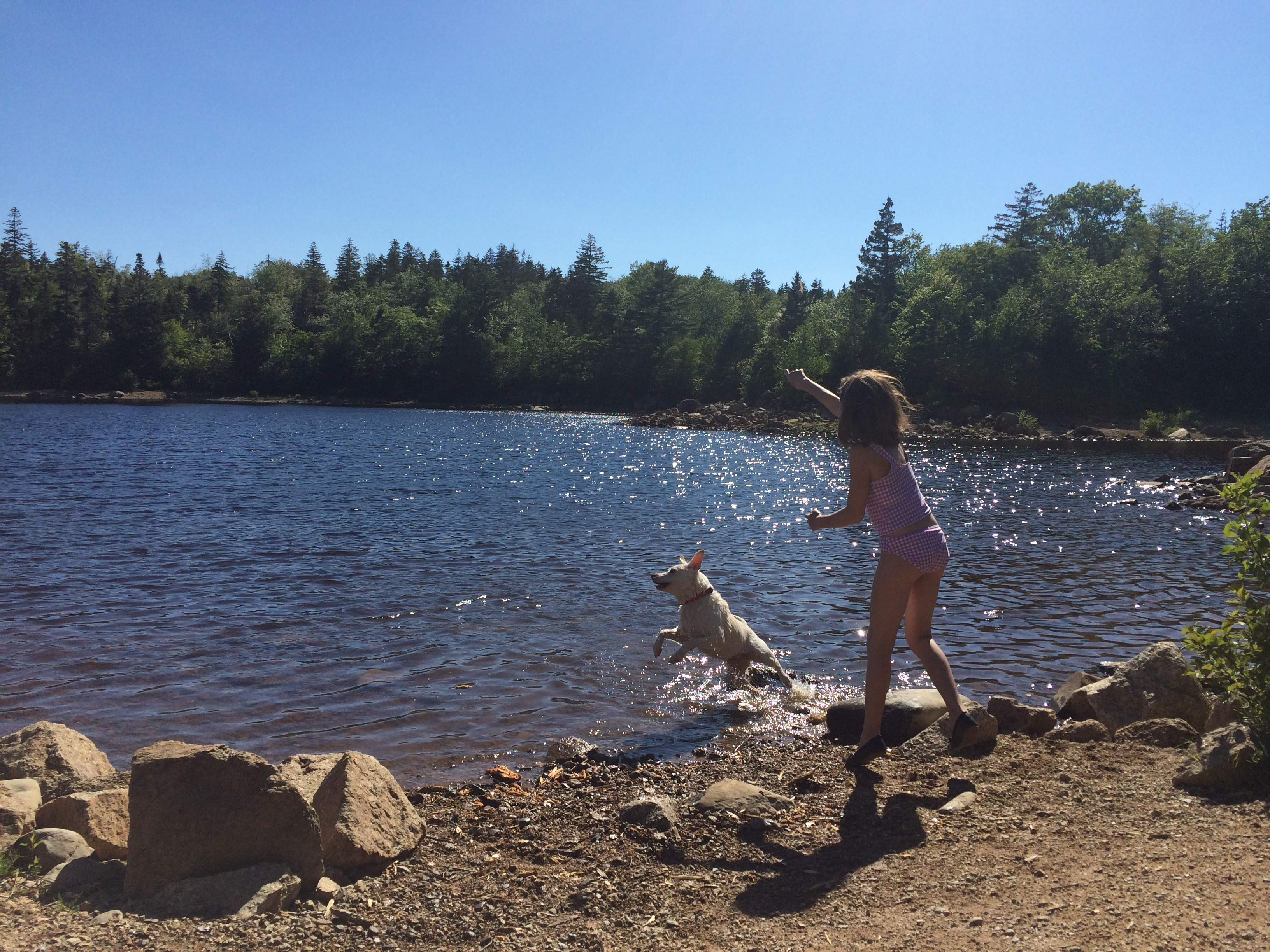 A girl and her dog